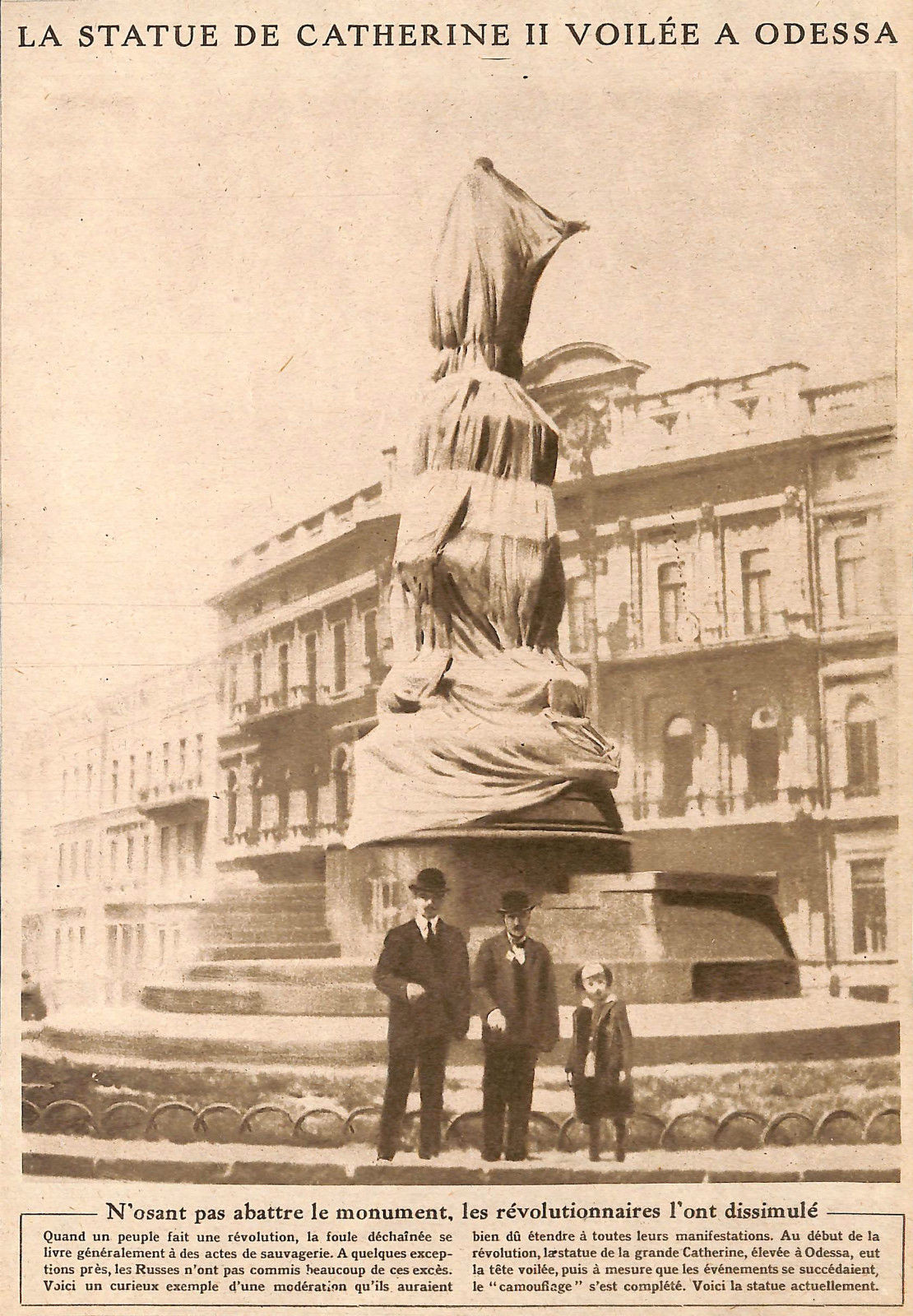 Photo of the monument of "Founders of Odessa" after February Revolution of Russia: statues of Catherine II and her servants are bashfully covered with a drapery. Circa spring of 1917